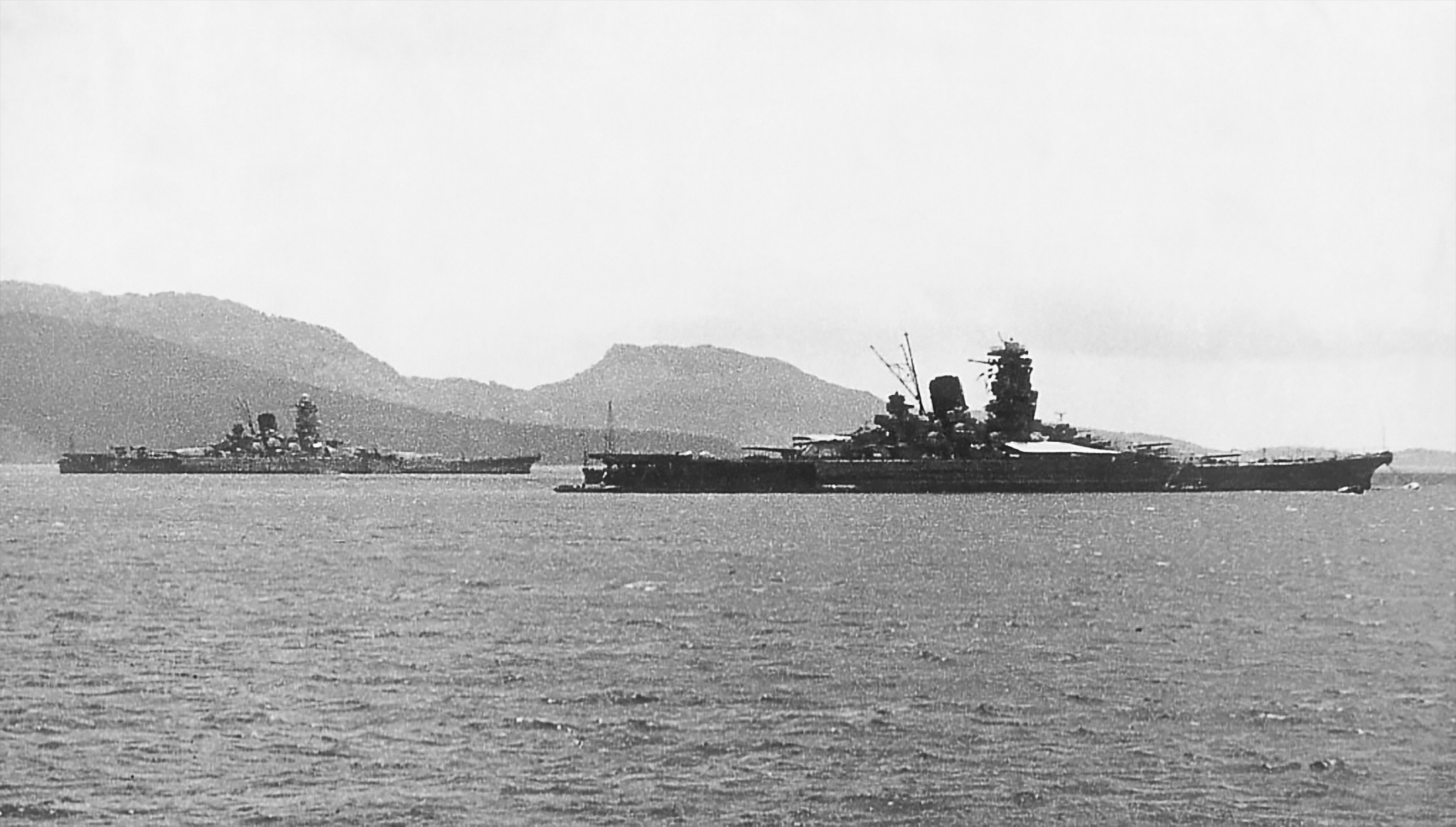 The Japanese battleships Yamato (left) and Musashi moored in Truk Lagoon, sometime between February and May 1943.